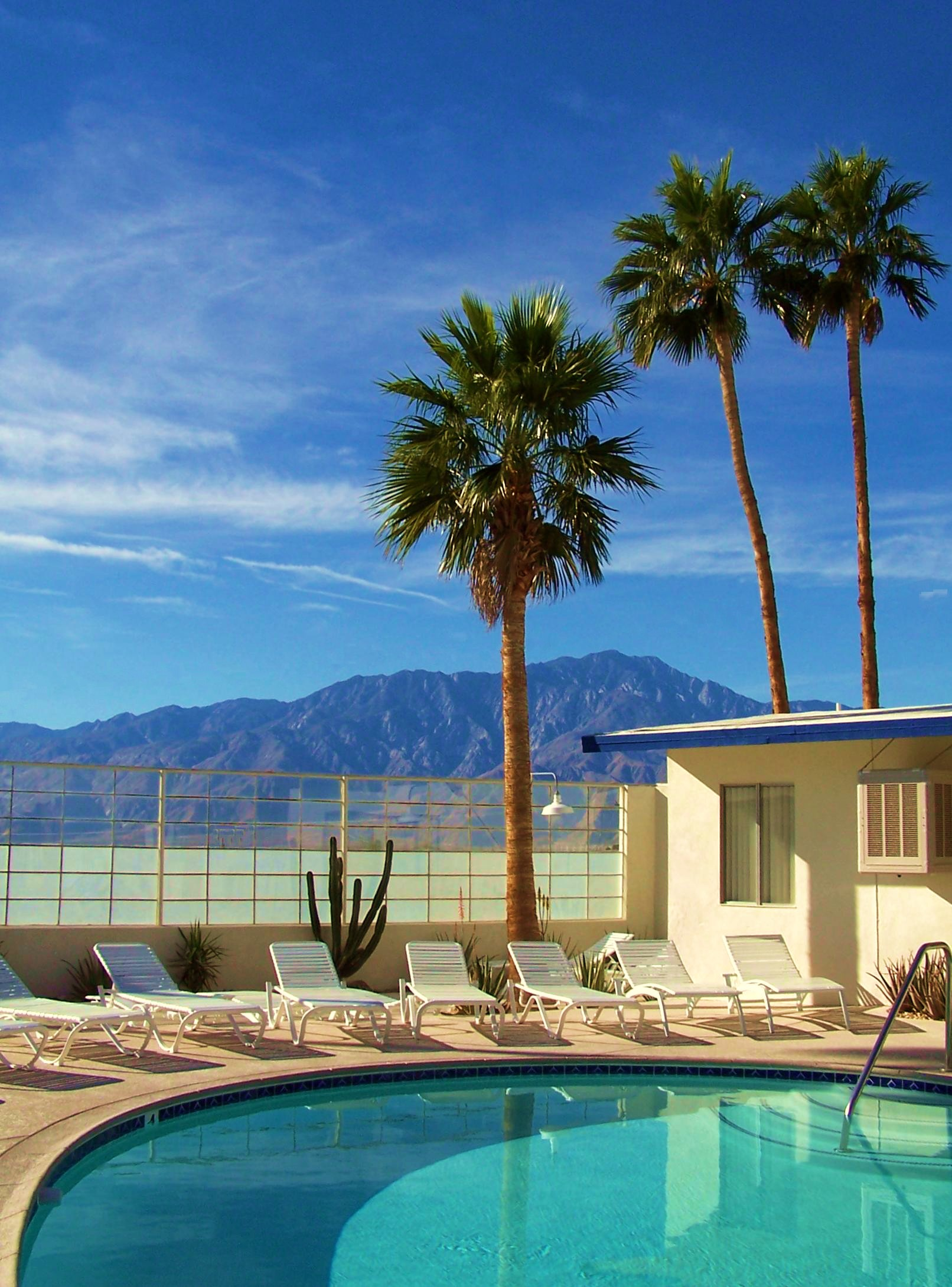 Living Waters Spa in Desert Hot Springs, California